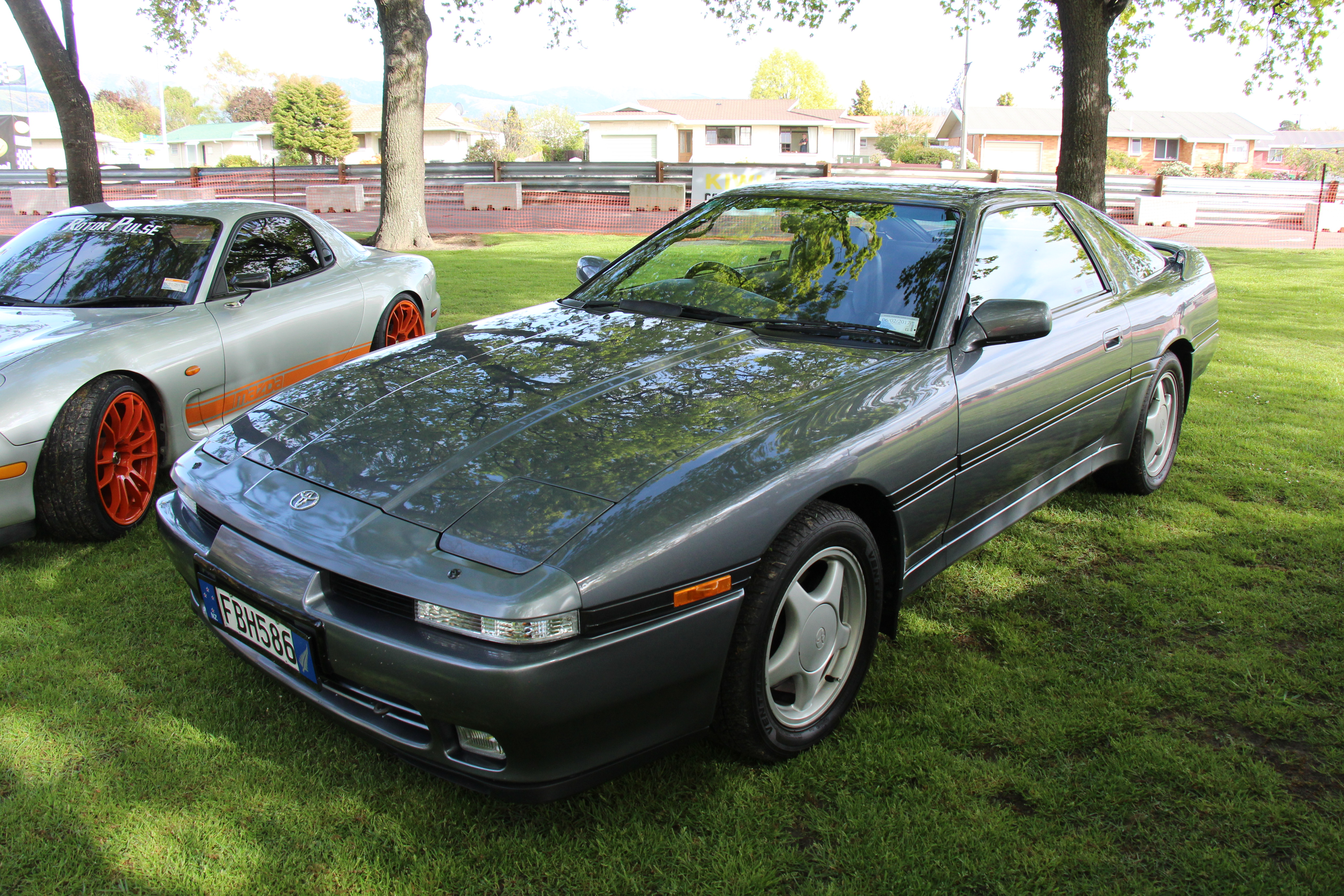 The Supra was derived from the Celica, but it was longer and wider, the first 4 generations got a 6 cyl engine (standard Celicas were 4 cyl) The Supra was built from 1978-2002, from 1986 the Celica name was dropped, now just Toyota Supra. The first generation was the A40 built from 1978-81. The second generation was the A60 built from 1981-86. The third generation was the A70 built from 1986-93. A more rounded shape, still with pop up headlights introduced in the second generation. A Turbo version was introduced in 1987, also with spoiler and LSD. Engine; 230hp 3.0 Turbo 6 cyl